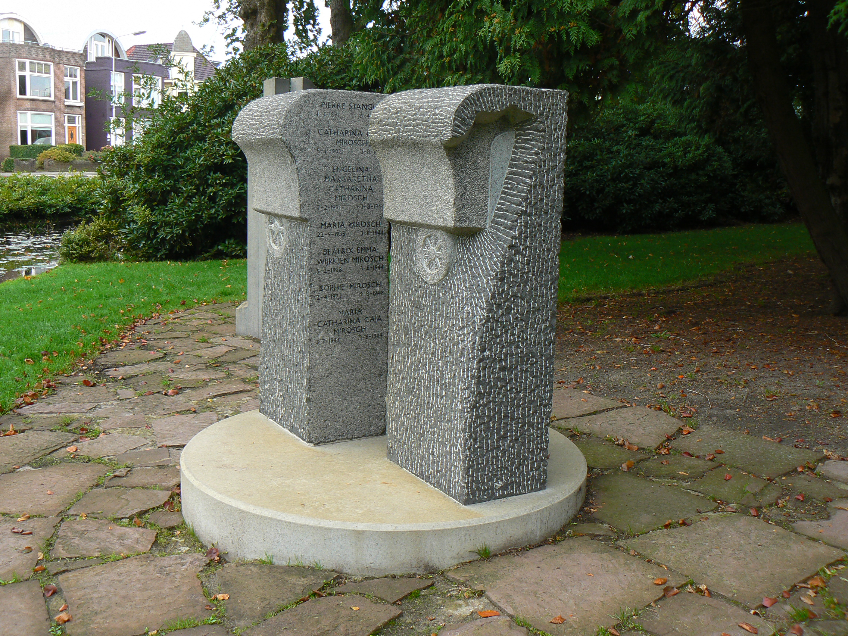 Memorial Zigeunermonument Drachten (2006) by Roelie Woudwijk, Stationsweg in Drachten/The Netherlands